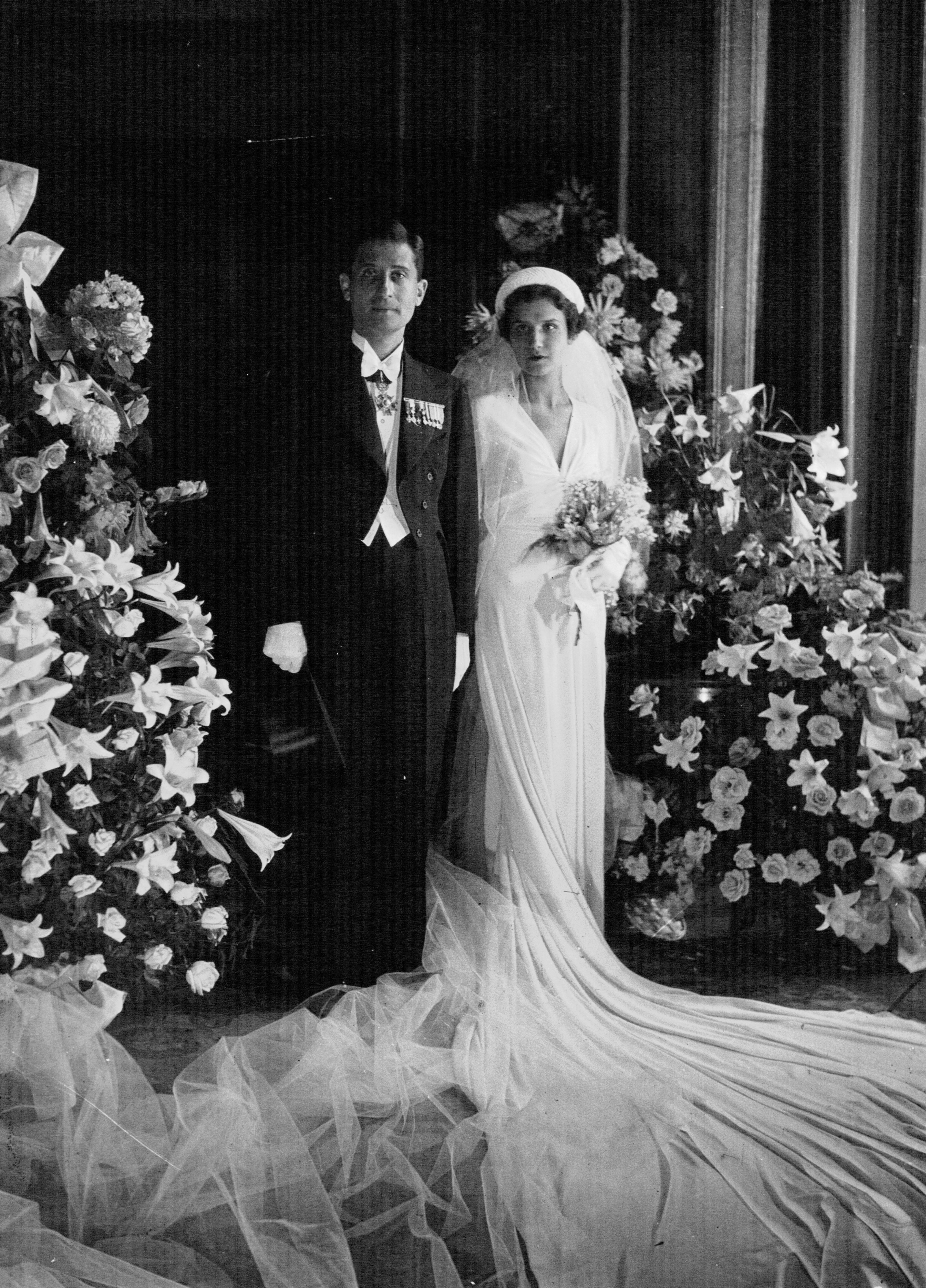 French industrialist Paul-Louis Weiller (1893-1993) and Greek model Aliki Diplarakou (1912-2002) on their wedding day in Paris in 1932.